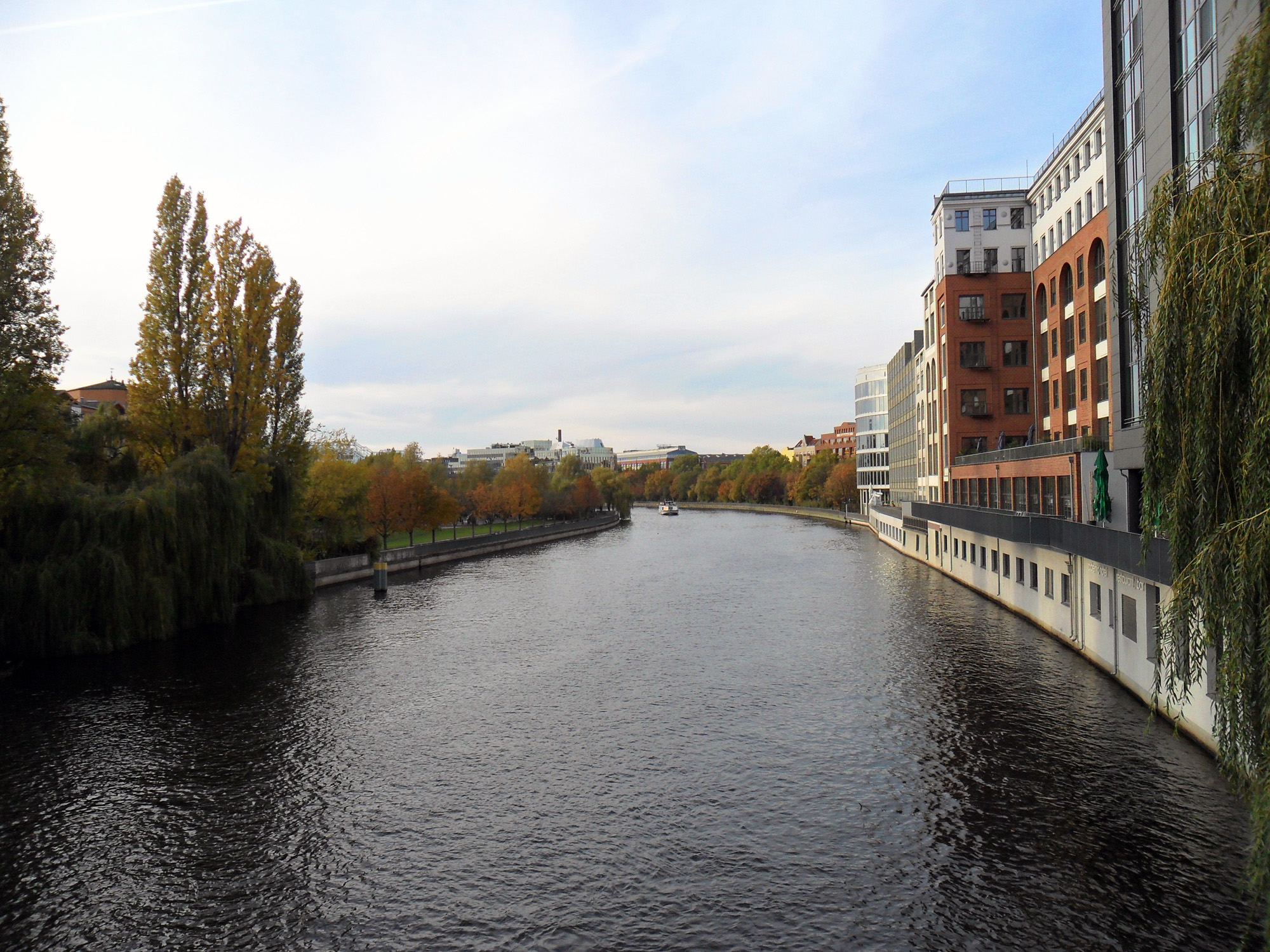 Spree, view from the Gotzkowsky-Bridge in Berlin